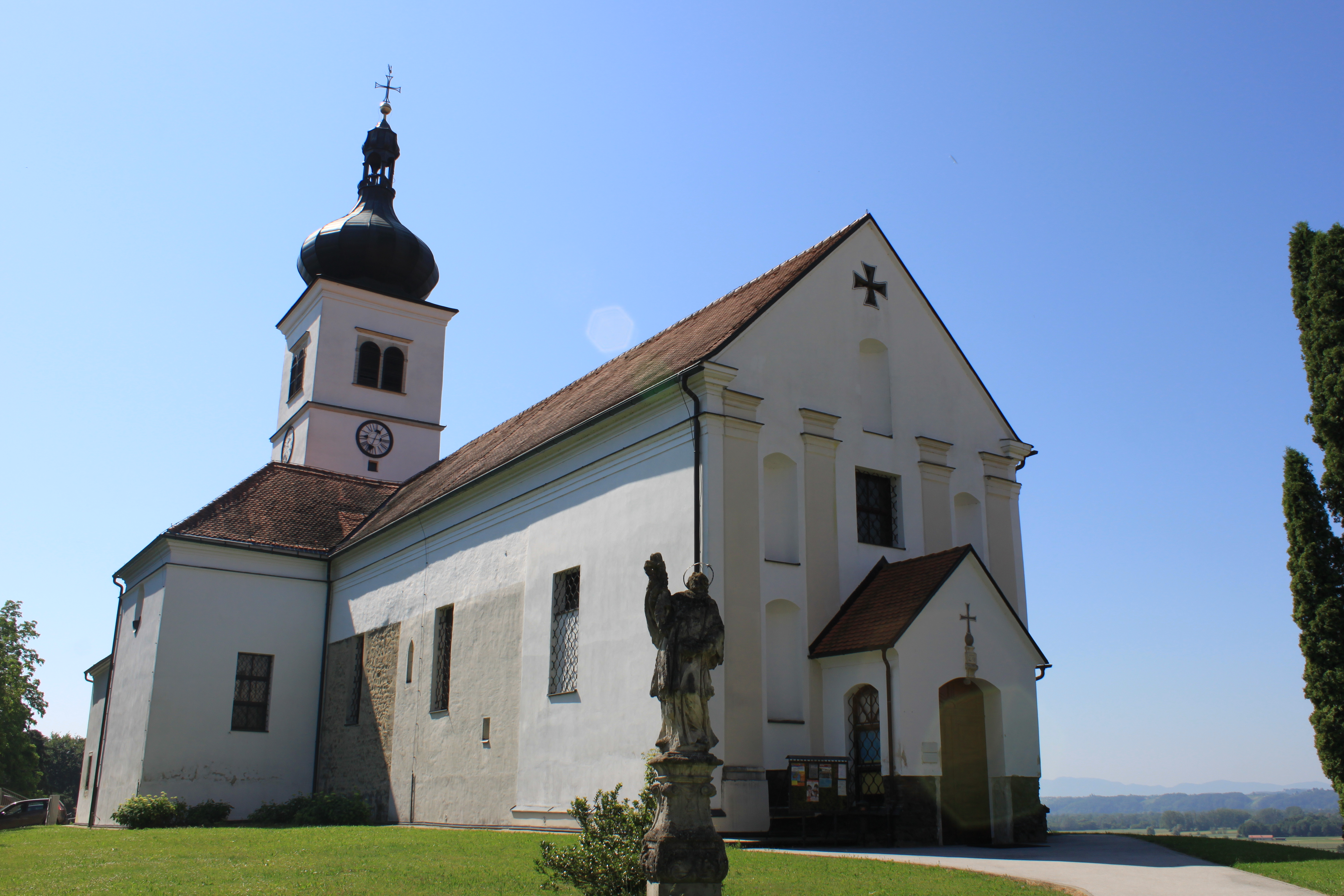 Velika Nedelja (German: Großsonntag in the meaning of Easter Sunday); Holy Trinity Church; View to the eastAfrikaans: Velika Nedelja (Duitse Großsonntag in die betekenis van Paas Sondag); Heilige Drie-eenheid kerk op die BurgbergSlovenščina: Velika Nedelja (nemško: Großsonntag); Cerkev sveta Trojice